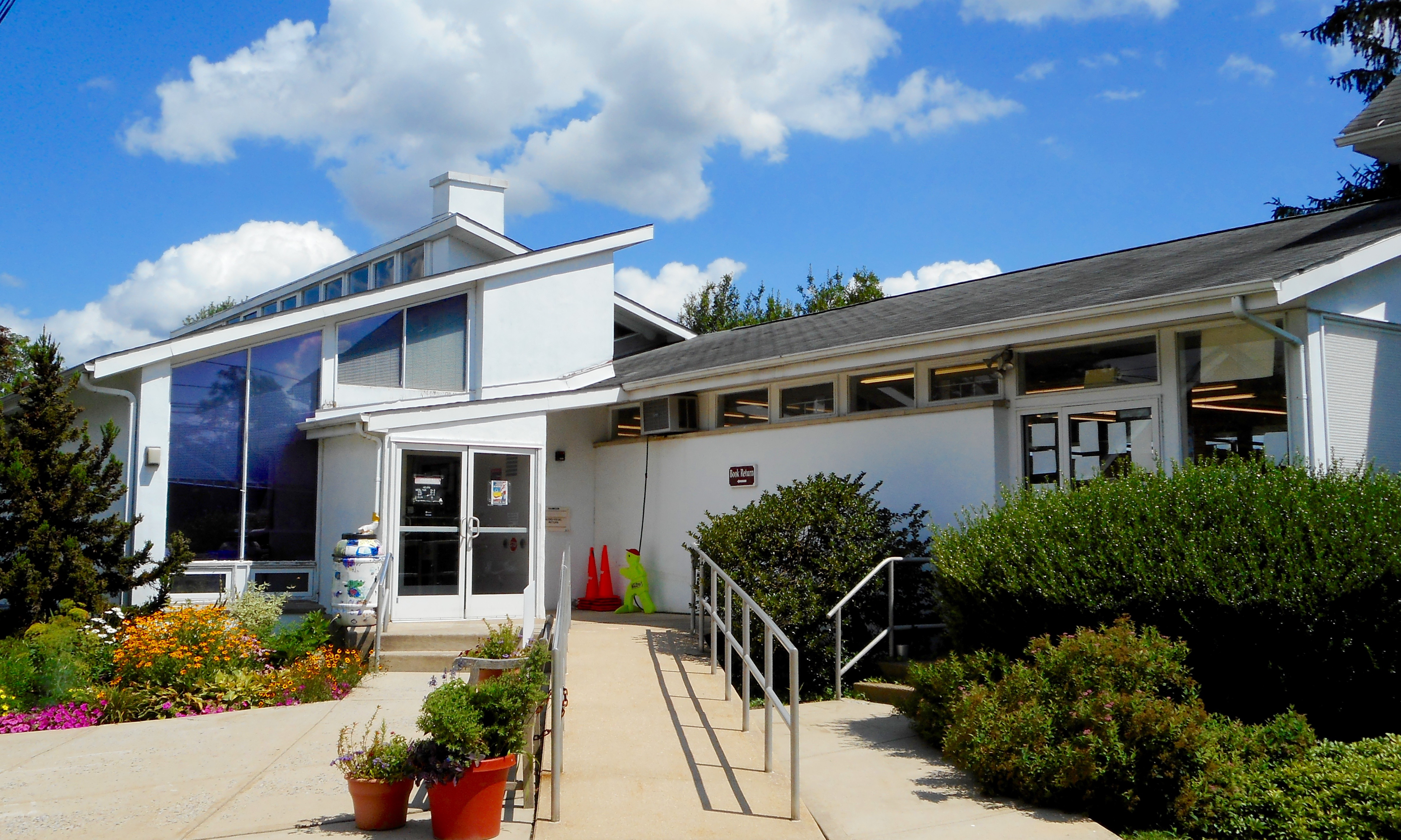 The Free Library in Middletown Township, Delaware County, Pennsylvania